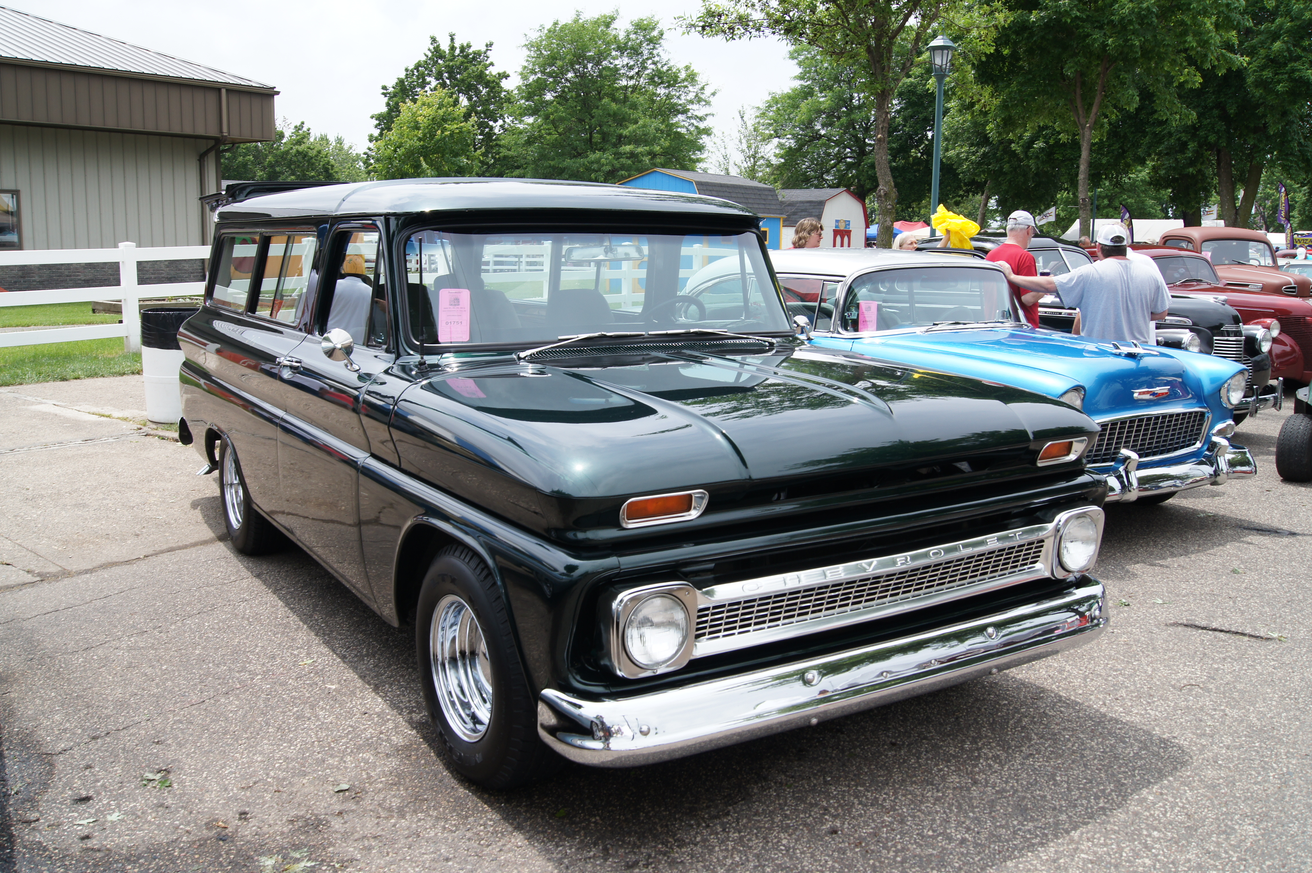 MSRA “BACK TO THE 50′s” 40th ANNIVERSARY June 21-23, 2013 State Fairgrounds St. Paul Minnesota More Car Pictures